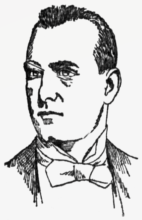 An illustration of baseball player George Borchers from the March 24, 1894, edition of the Nashville Banner